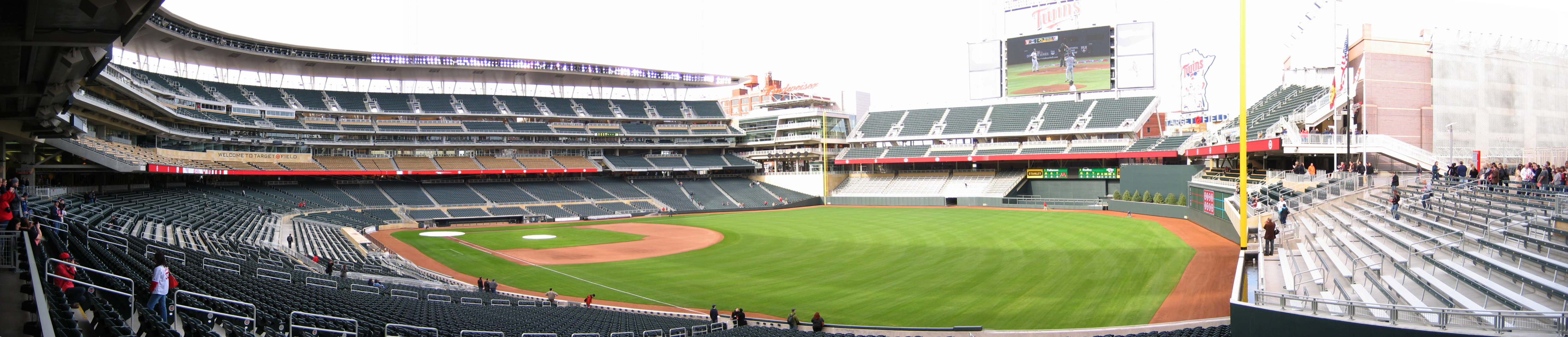 Panorama of Target Field, Minneapolis, Minnesota